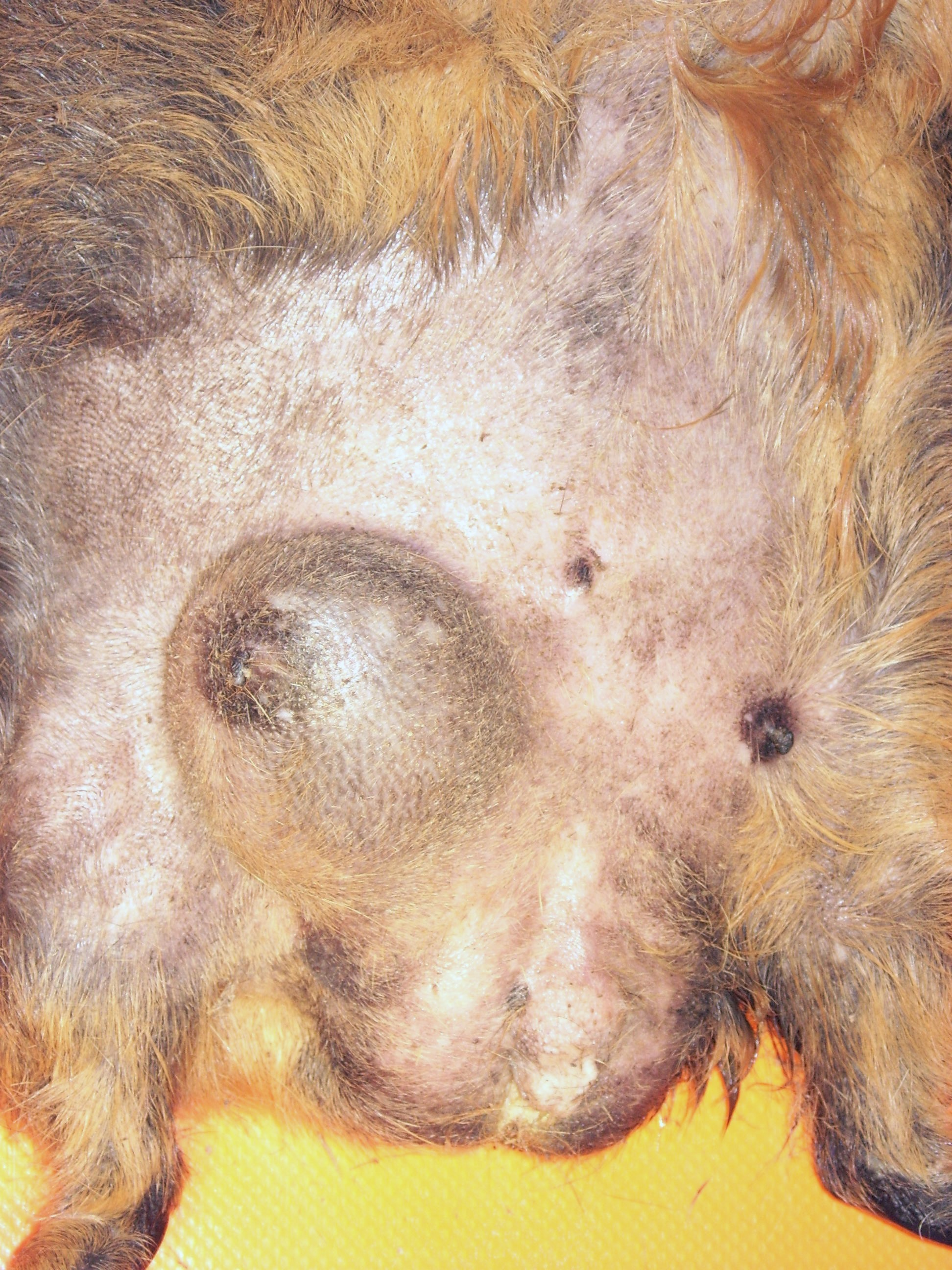 mamma tumor in a guinea pig